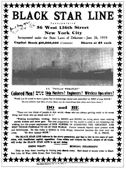 BSL brochure for the phantom SS Phyllis Wheatley (Source: Marcus Garvey and UNIA Papers Project). A central exhibit in the Mail Fraud case of 1921, featuring a doctored photograph of an ex-German ship the SS Orion, put up for sale by the United States Shipping Board. The Orion's name has been replaced with name Phyllis Wheatley. The Black Star Line had proposed to buy, and rename her but the transaction was never completed. Source: Martin, Tony. Race First: The Ideological and Organizational Struggle of Marcus Garvey and the Universal Negro Improvement Association. Westport, Conn.: Greenwood Press, 1976.